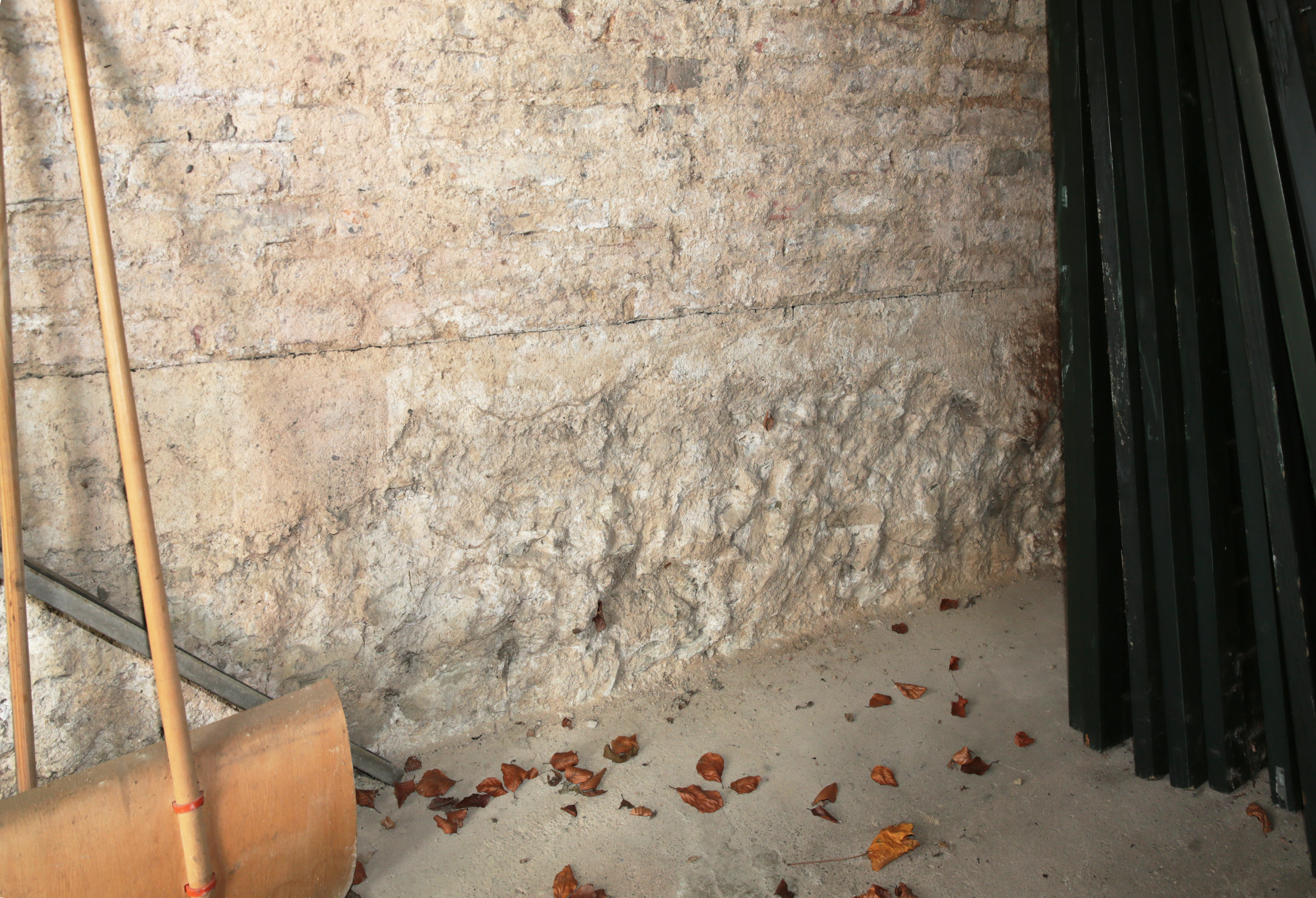 Roman Opus caementicium in the adjoining building of Parochial house Saint Gervasius - St. Protasius Church in Sechtem (Bornheim), Germany